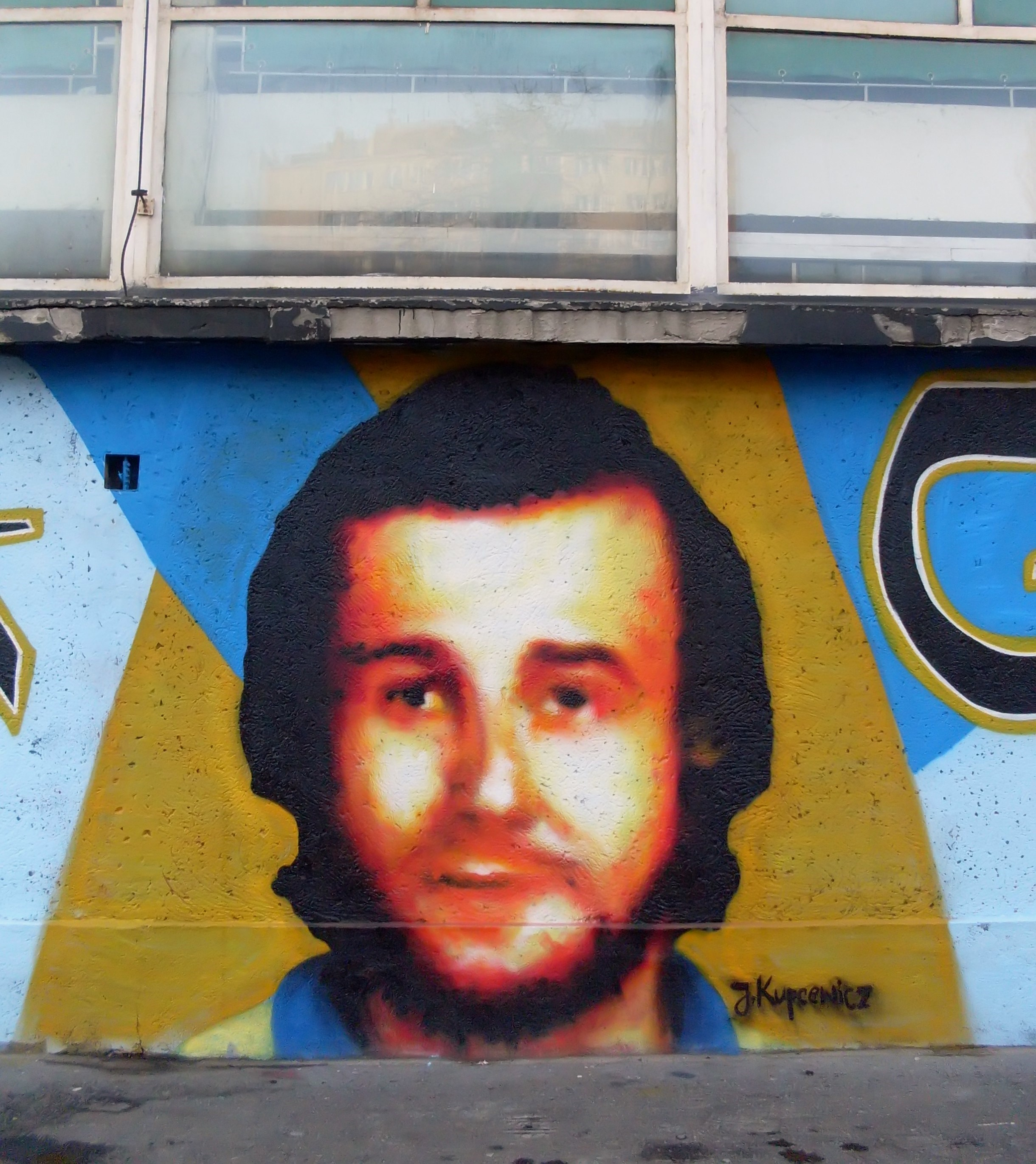 Janusz Kupcewicz at graffiti at ulica Jozefa Bema in Gdynia.